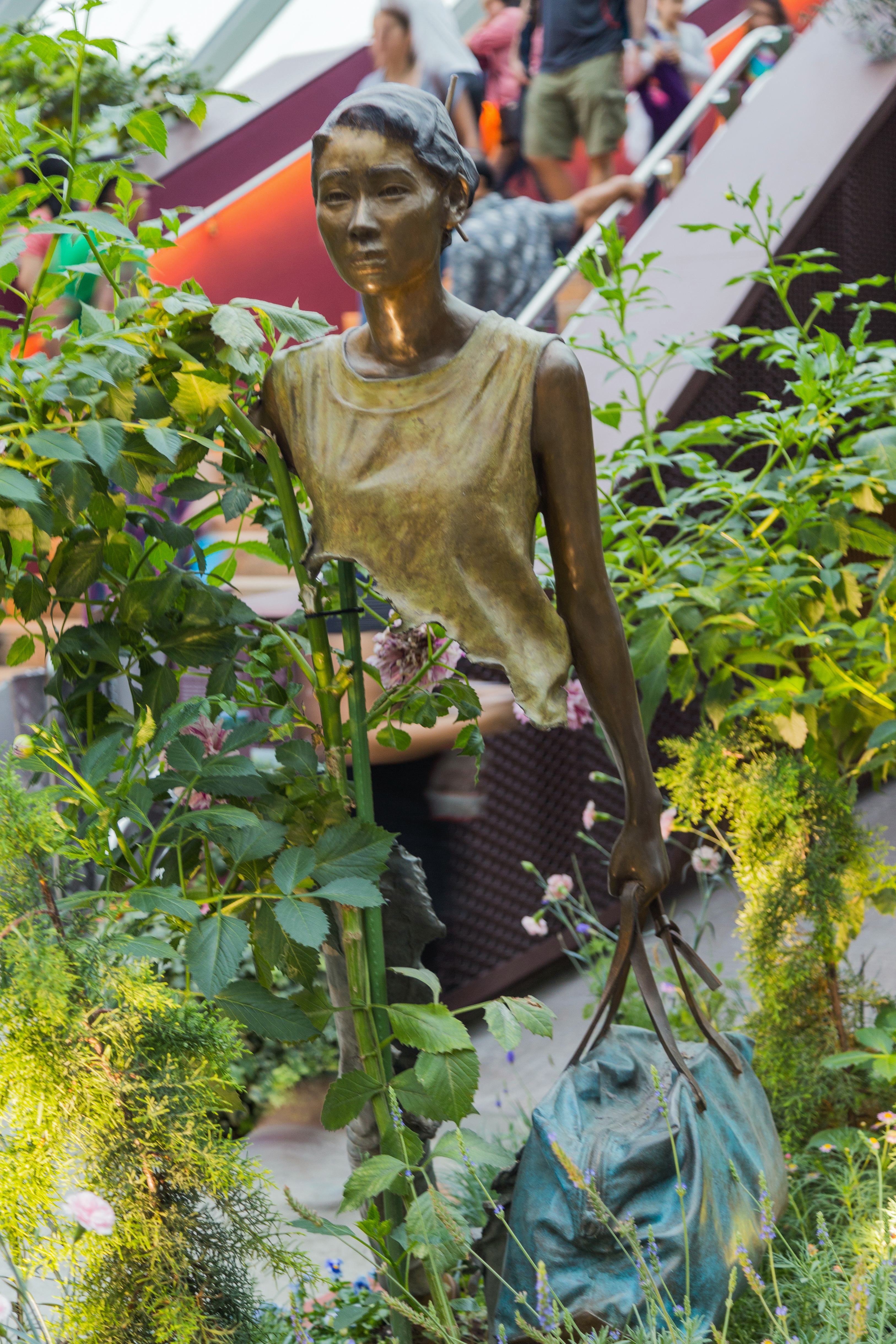 Bronze sculpture "La Famille De Voyageurs", author: Bruno Catalano. Inside Flower Dome, Bay South Garden, Gardens by the Bay. Central Region, Singapore.